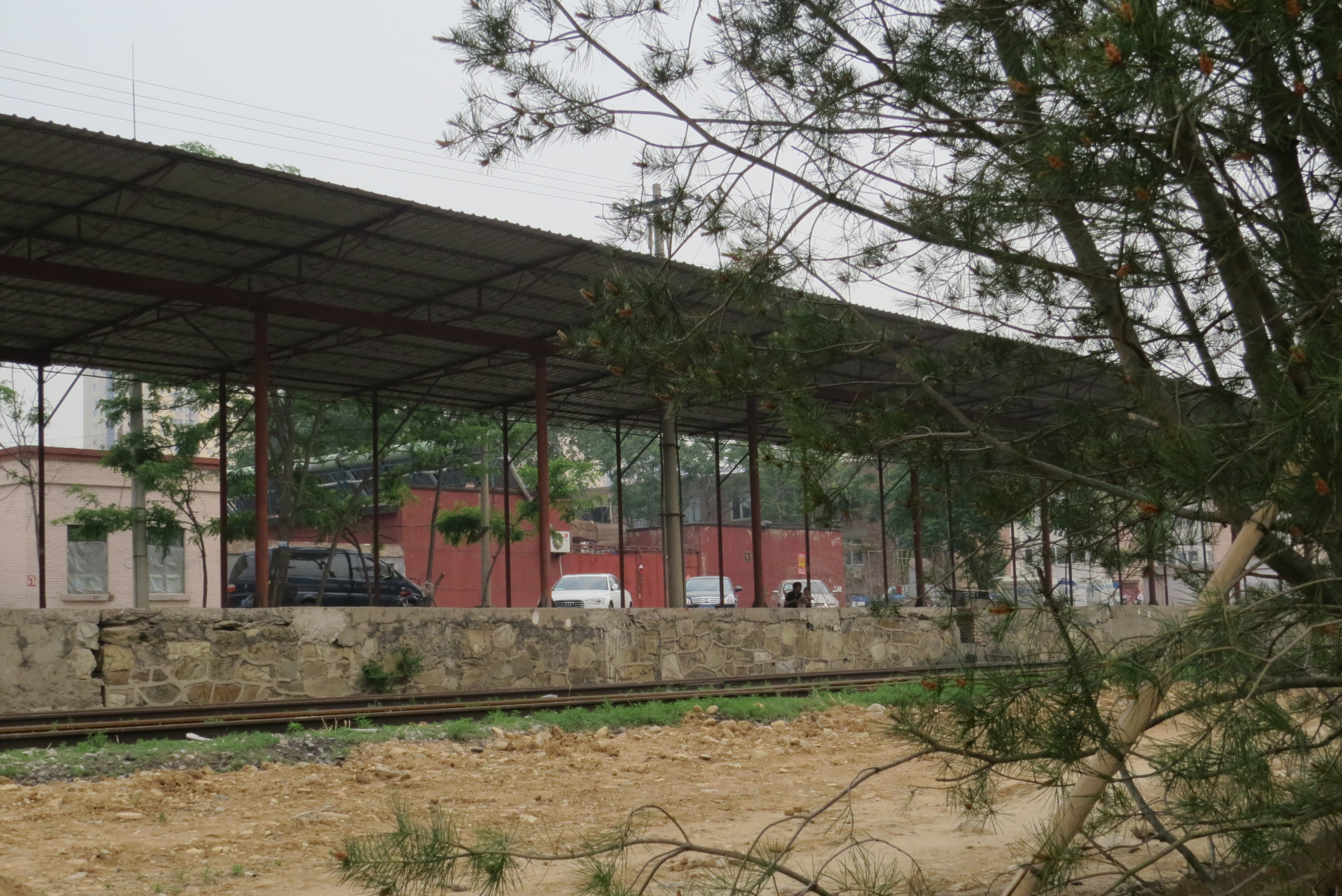 Note the railway badge...